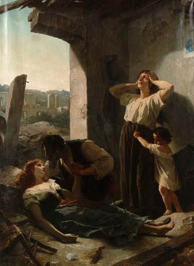 Family with Injured Daughter (earthquake?)